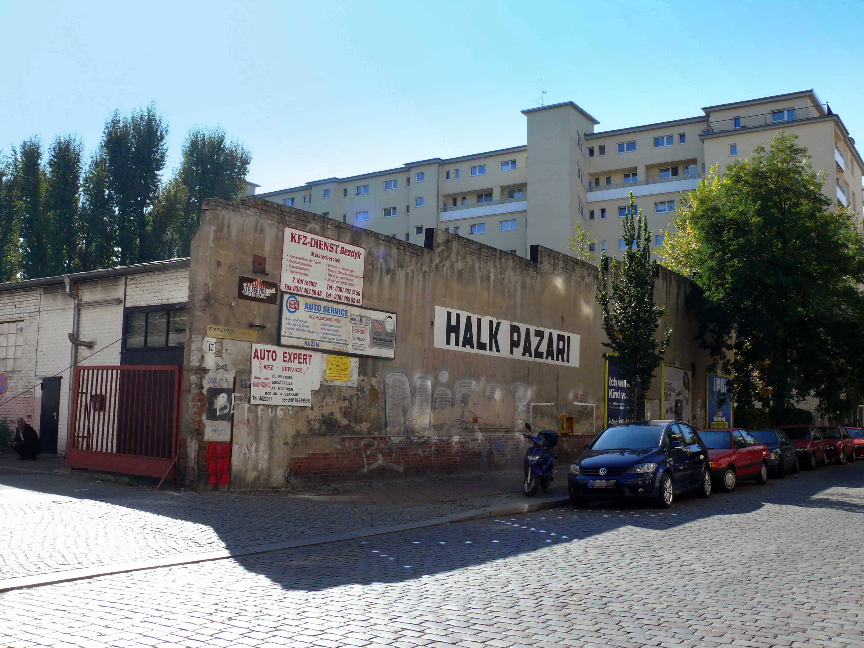 Berlin-Gesundbrunnen Bastianstraße